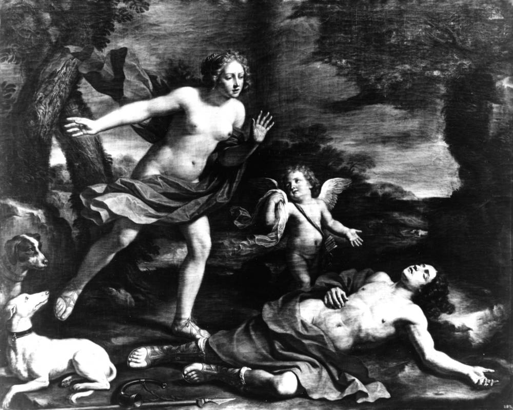 'The Death of Adonis', by Guercino. This painting was part of the collections of the Gemäldegalerie Alte Meister in Dresden and it was destroyed during the Second World War, in 1945. - Dimensions: 211 x 272 cm - Oil on canvas